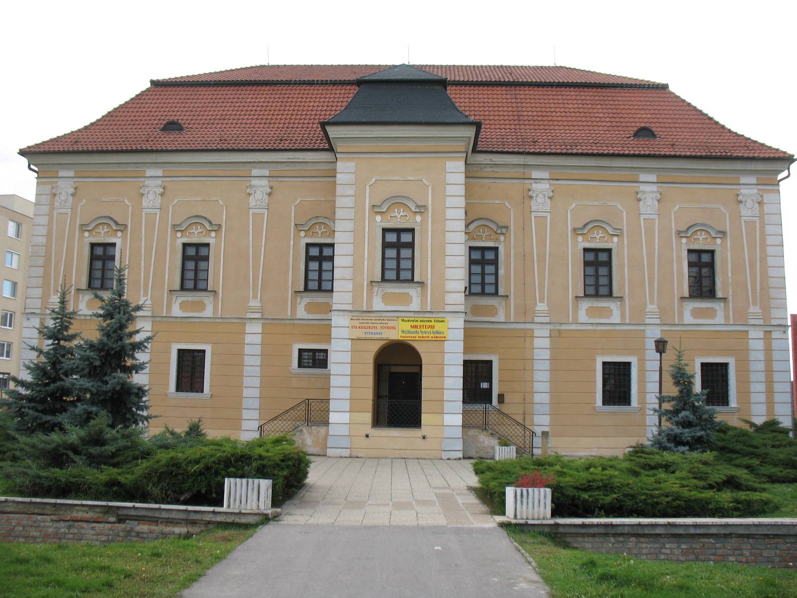 Renaissance manor house of the Esterházy family in Galanta, Slovakia.